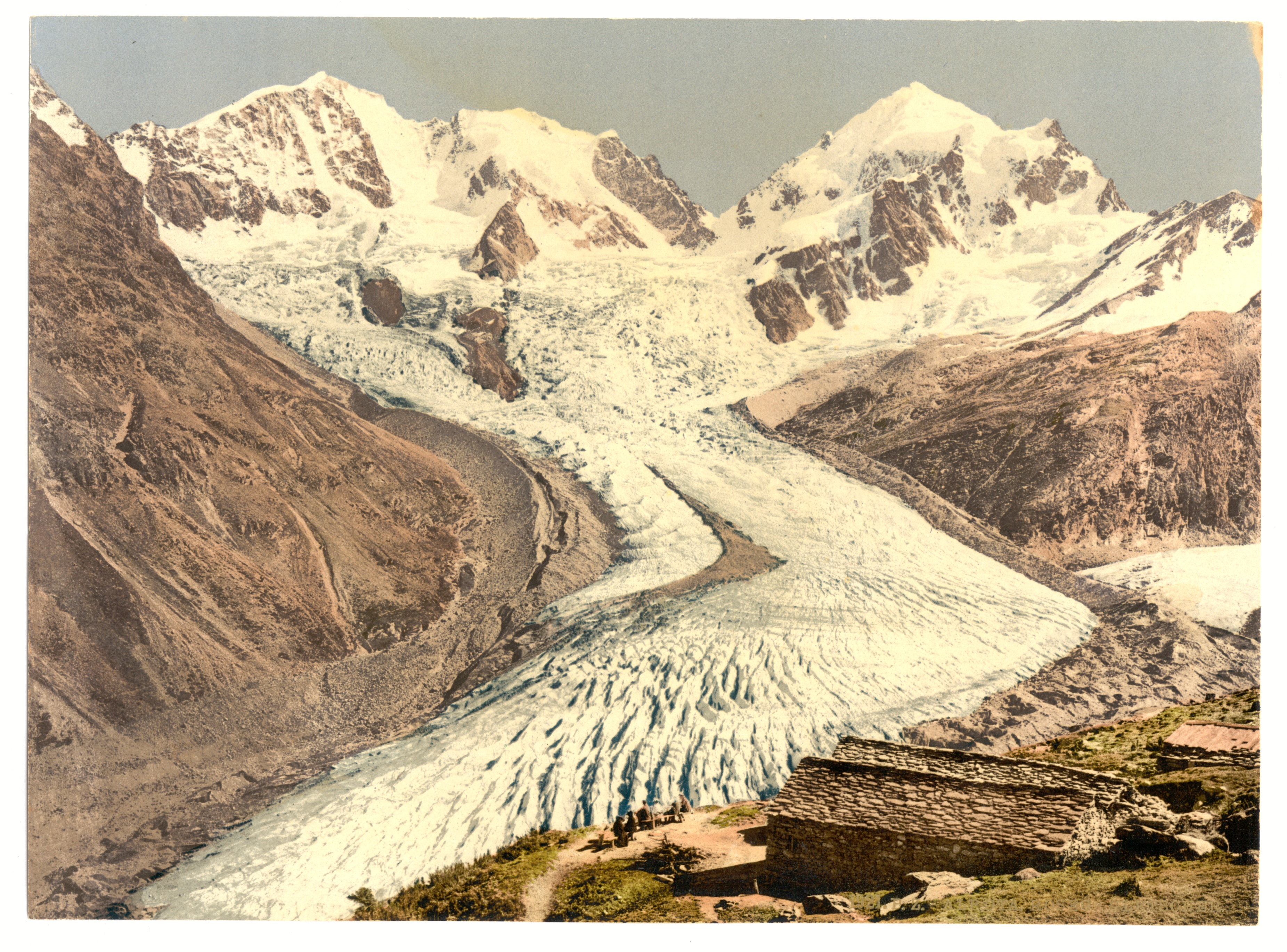 Print no. "1921".; Title from the Detroit Publishing Co., Catalogue J-foreign section, Detroit, Mich. : Detroit Publishing Company, 1905.; Forms part of: Views of Switzerland in the Photochrom print collection.